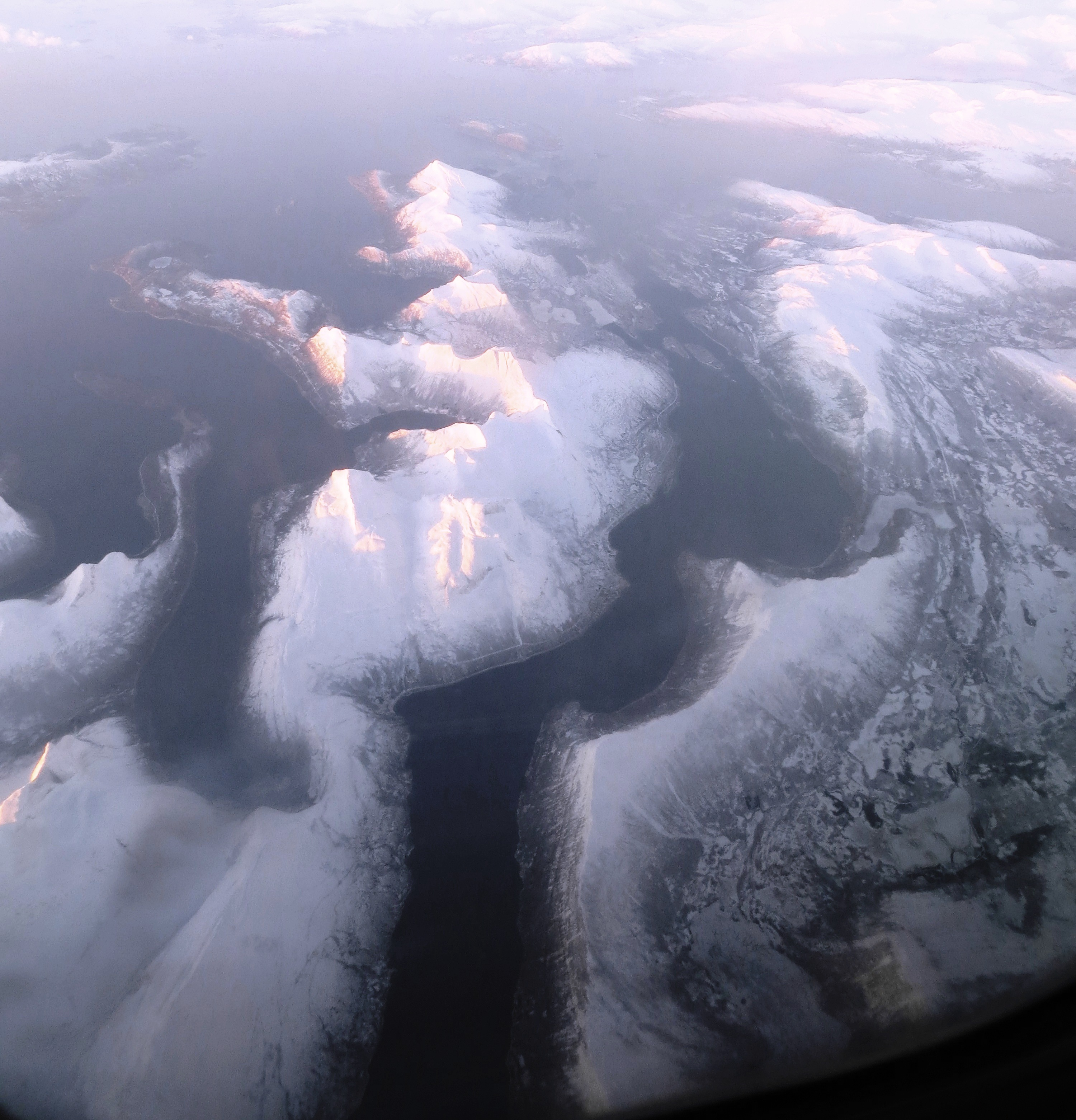 Aerial view from the east towards west, over the municipalities of Tysfjord and Ballangen - in Troms county, northern Norway